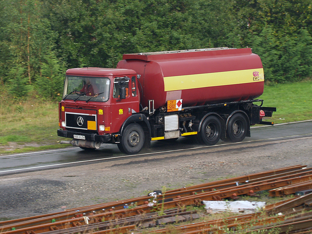 English Welsh and Scottish Railway Limited Seddon Atkinson 3-11 (10 litre) road tanker E663 LOU arrives at the Corus Northern Service Centre at Castleton. Wednesday 4th October 2006